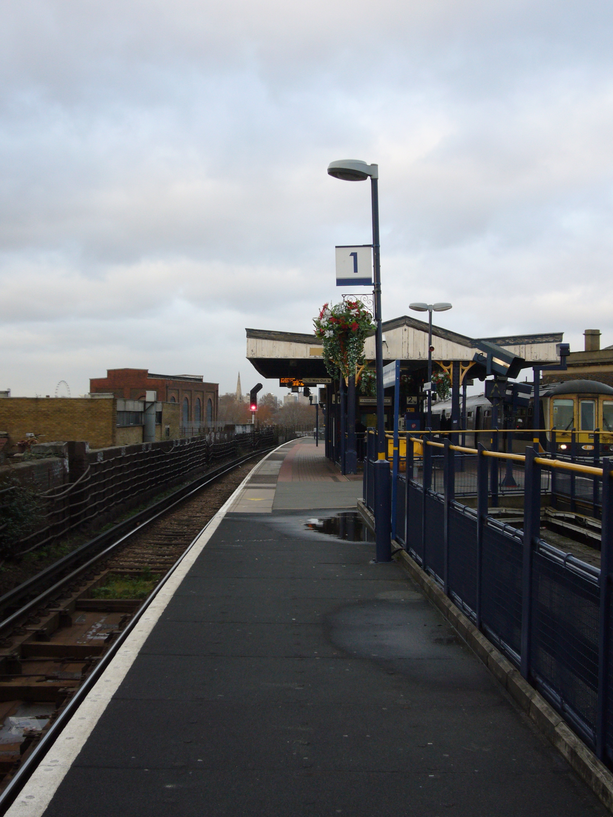 A view of the platform at Loughborough Junction railway station in South East London. The London Eye is visible in the distance.